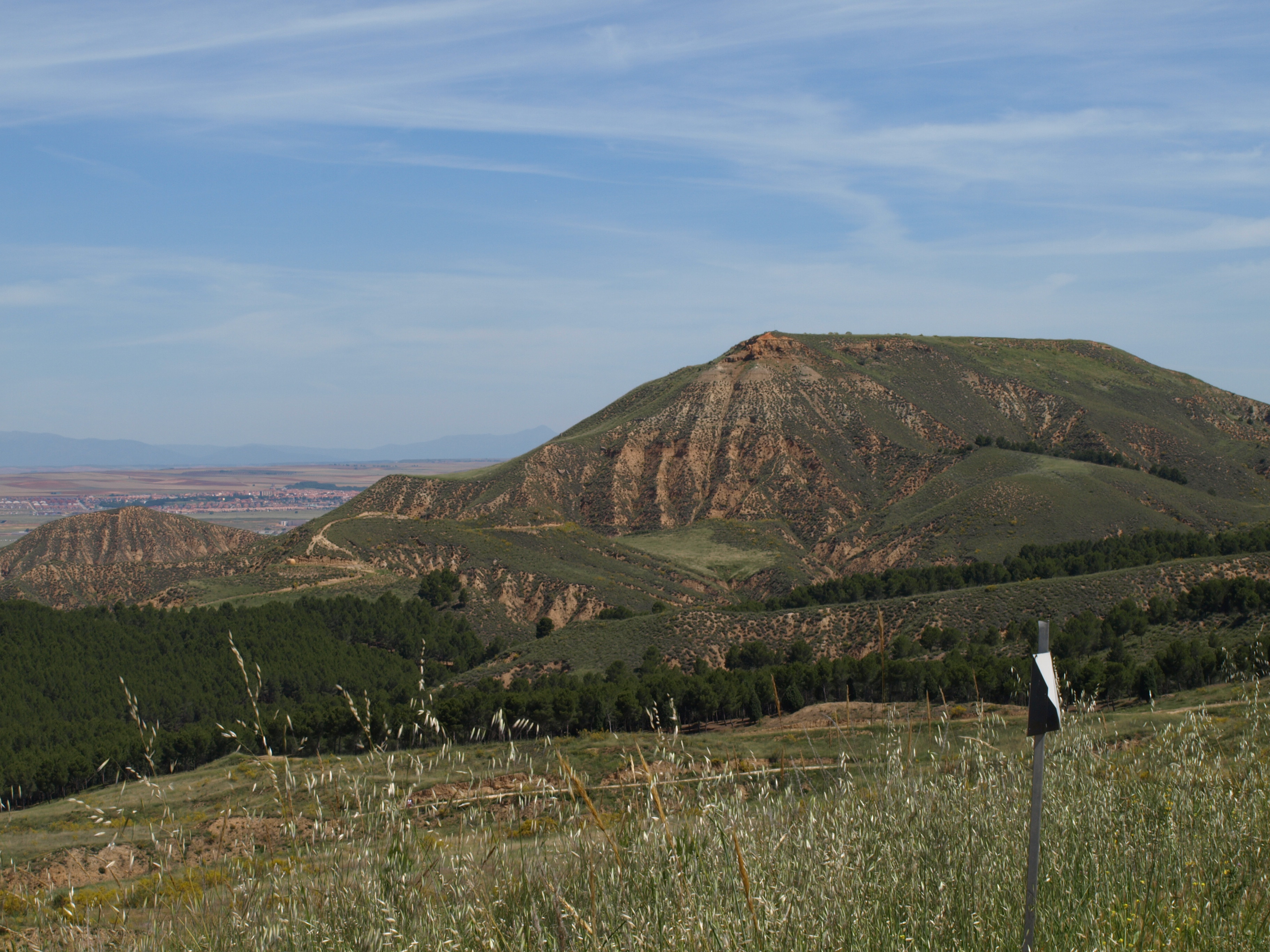 Side view of Ecce Homo hill in Alcalá de Henares (Community of Madrid - Spain).